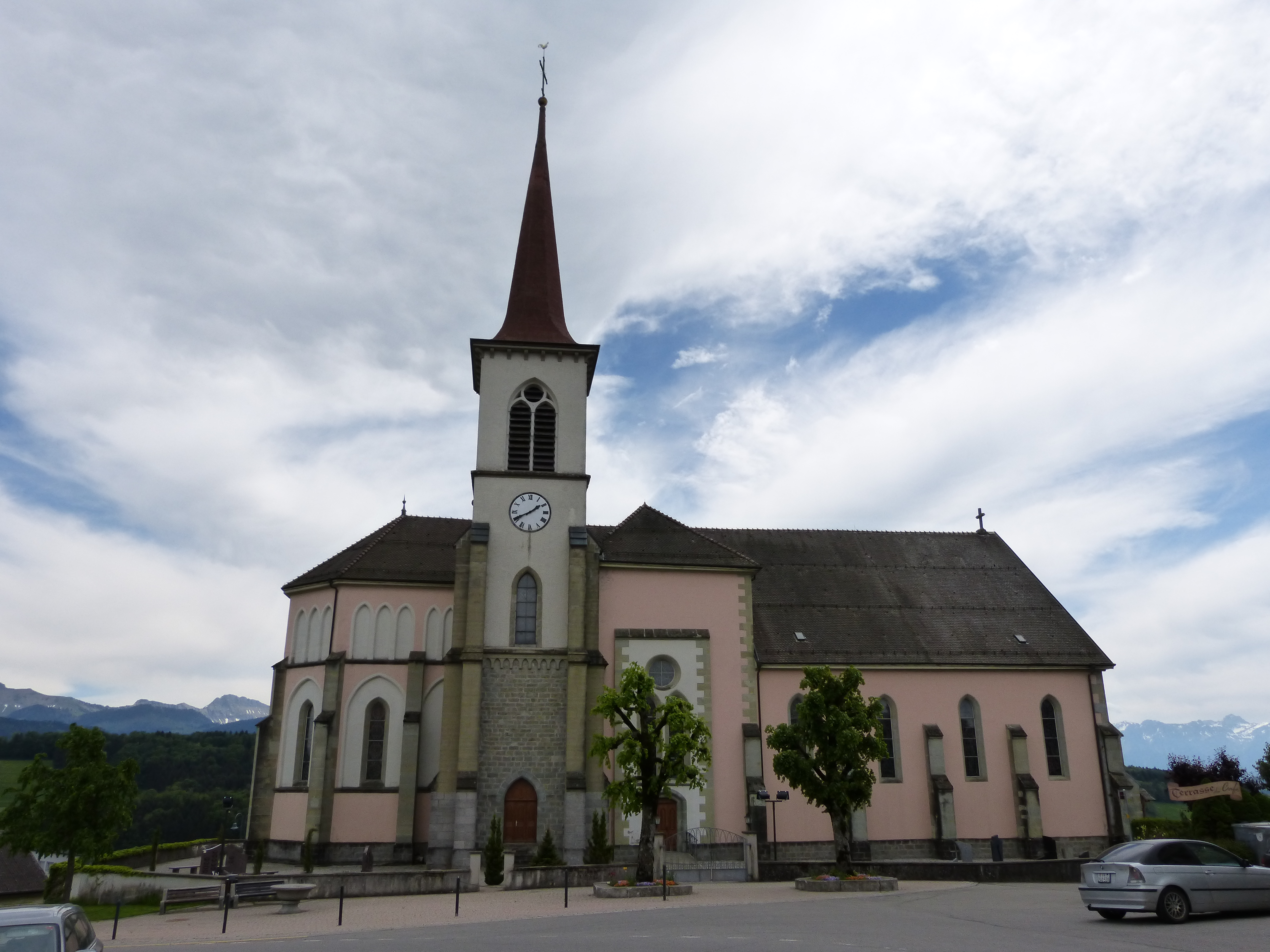 View of the catholic church at Saint-Martin.